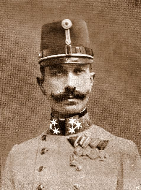 Baron Eduard von Böhm-Ermolli (1856-1941) field marshal of Austria-Hungary